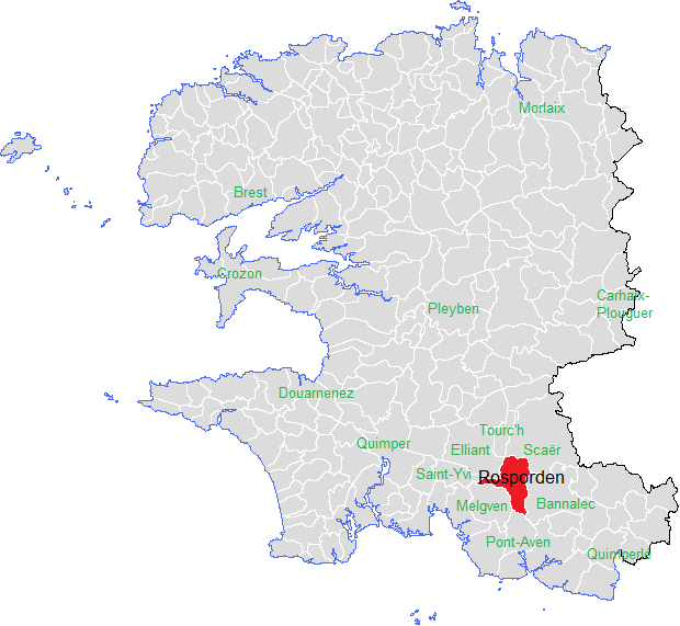 placement Rosporden in departement Finistère